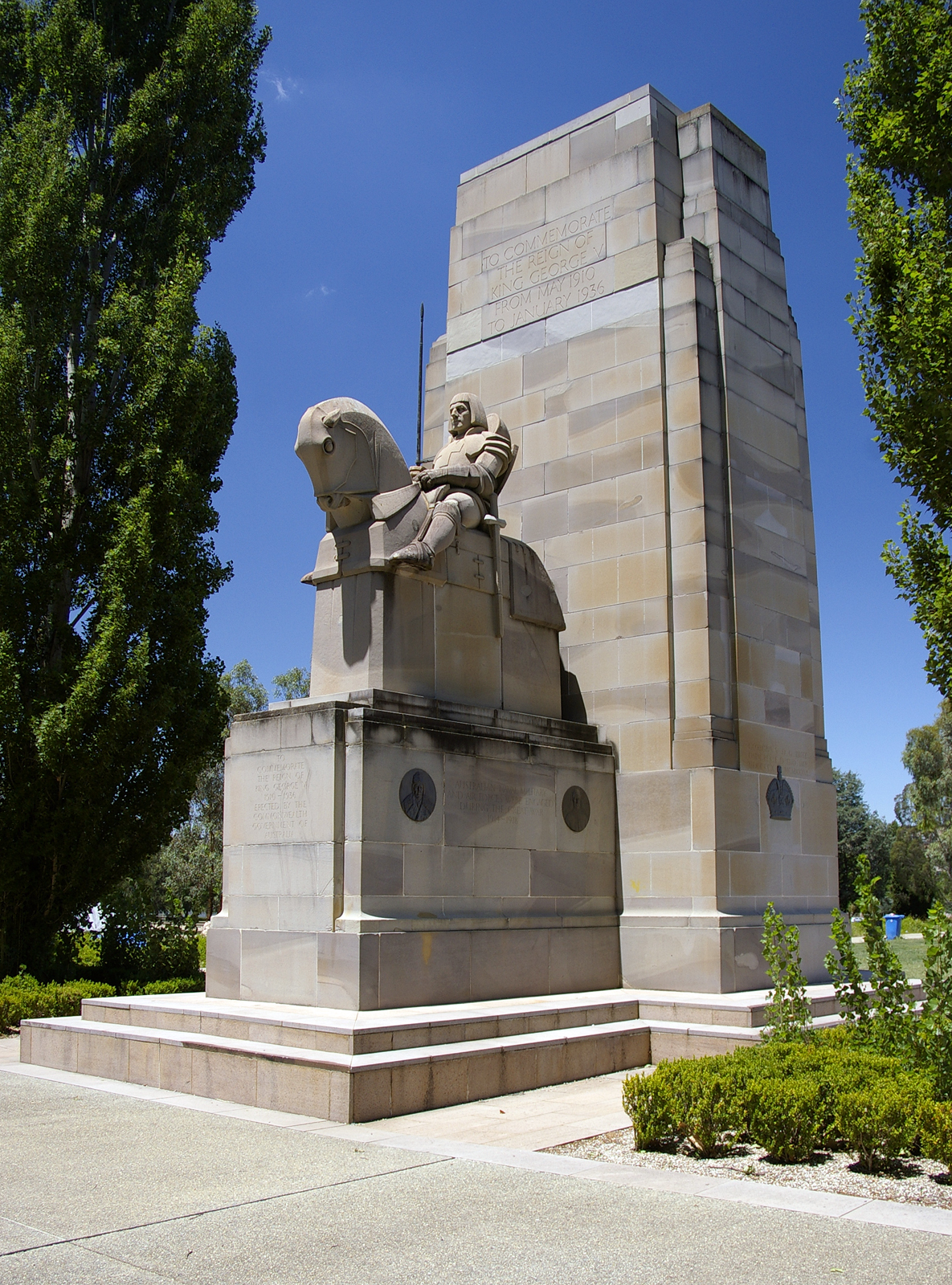 King George V Memorial in Parkes Place Parkes, Australian Capital Territory designed by Rayner Hoff and completed by John Moorefield after the death of Hoff in 1937.